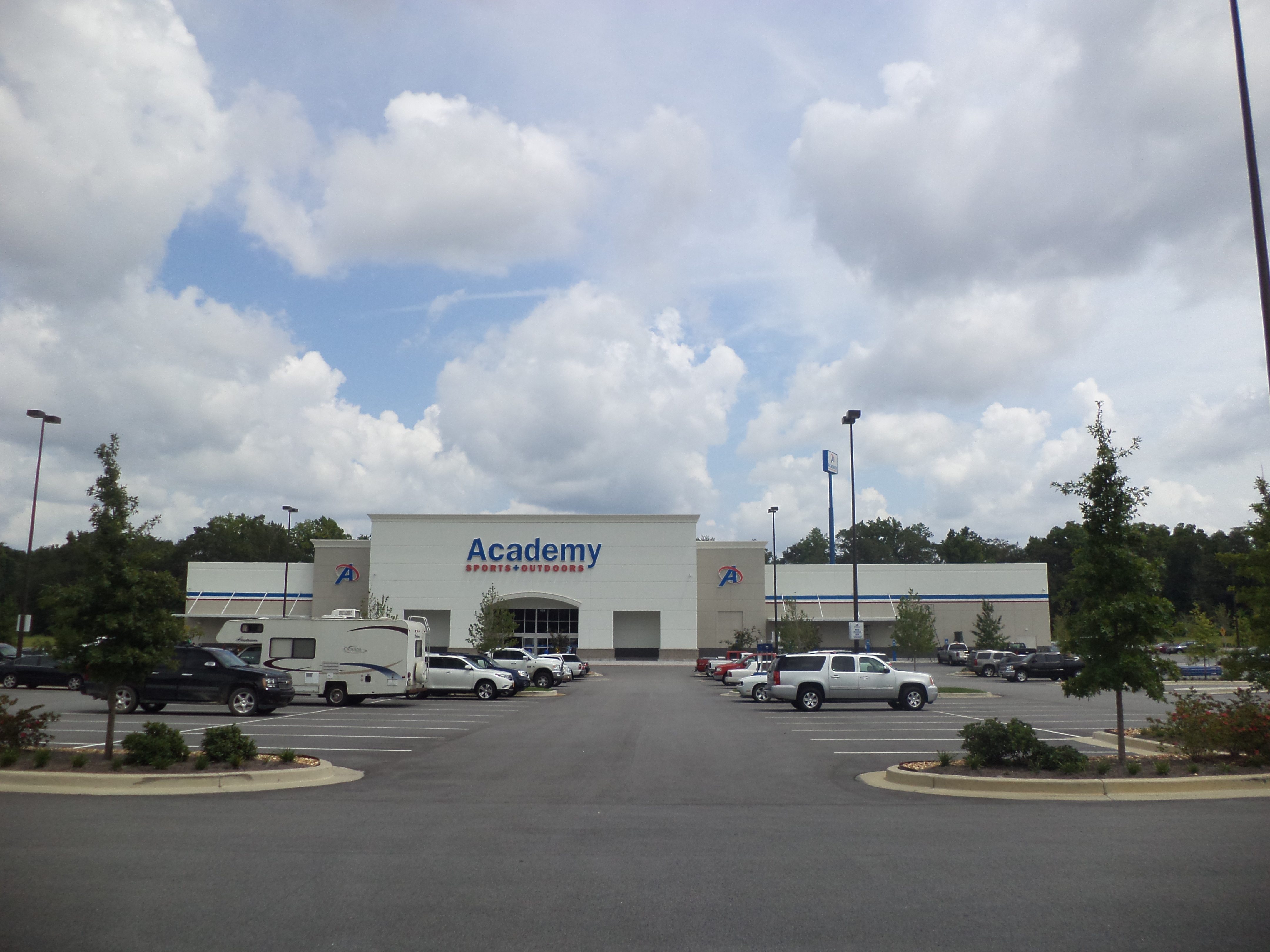 Academy Sports Outdoors, Valdosta, Lowndes County, Georgia